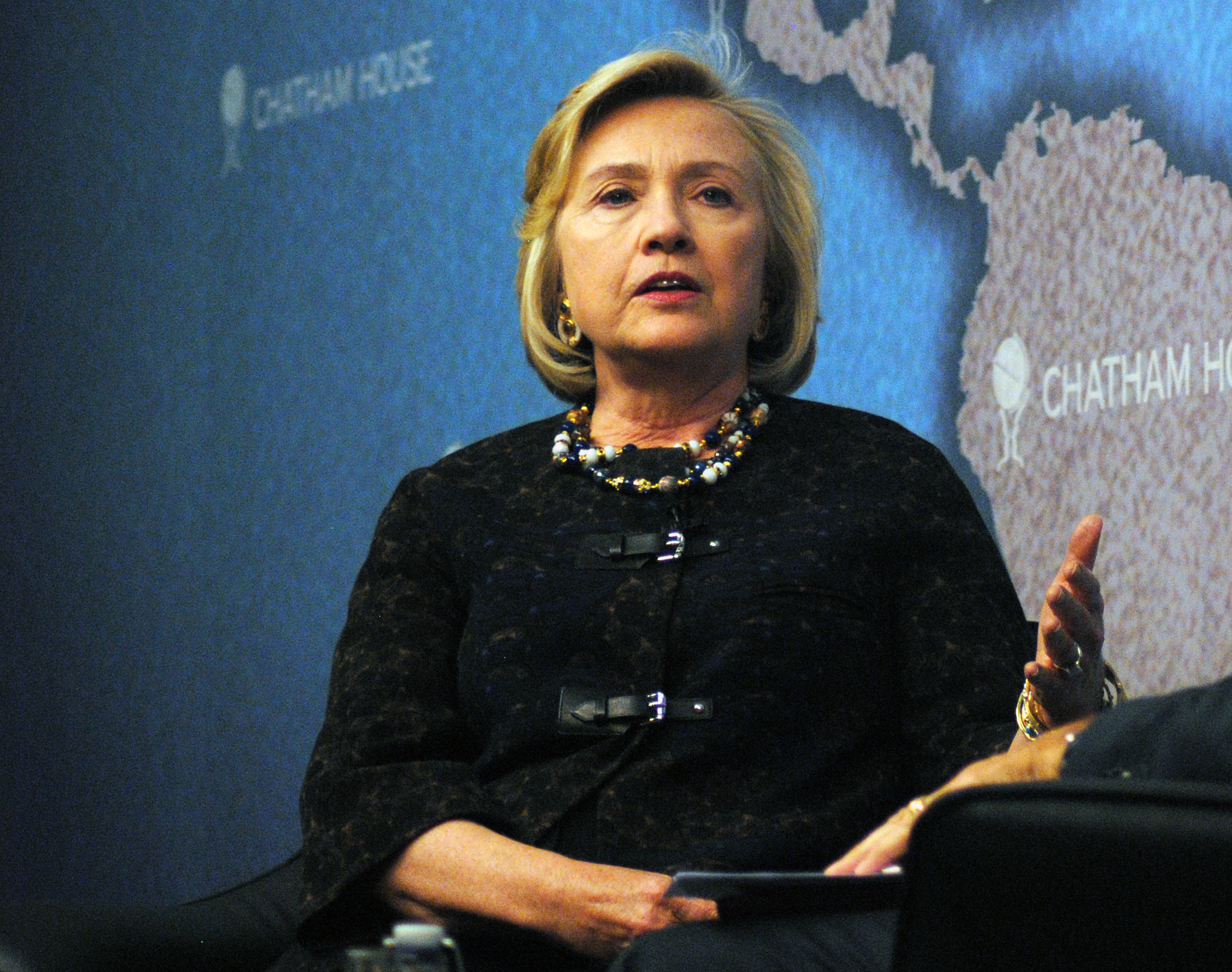 11 October 2013 cht.hm/XVYPy2